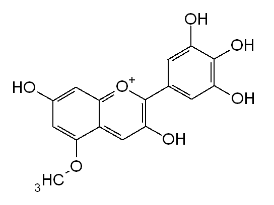 Chemical structure of Pulchellidin.